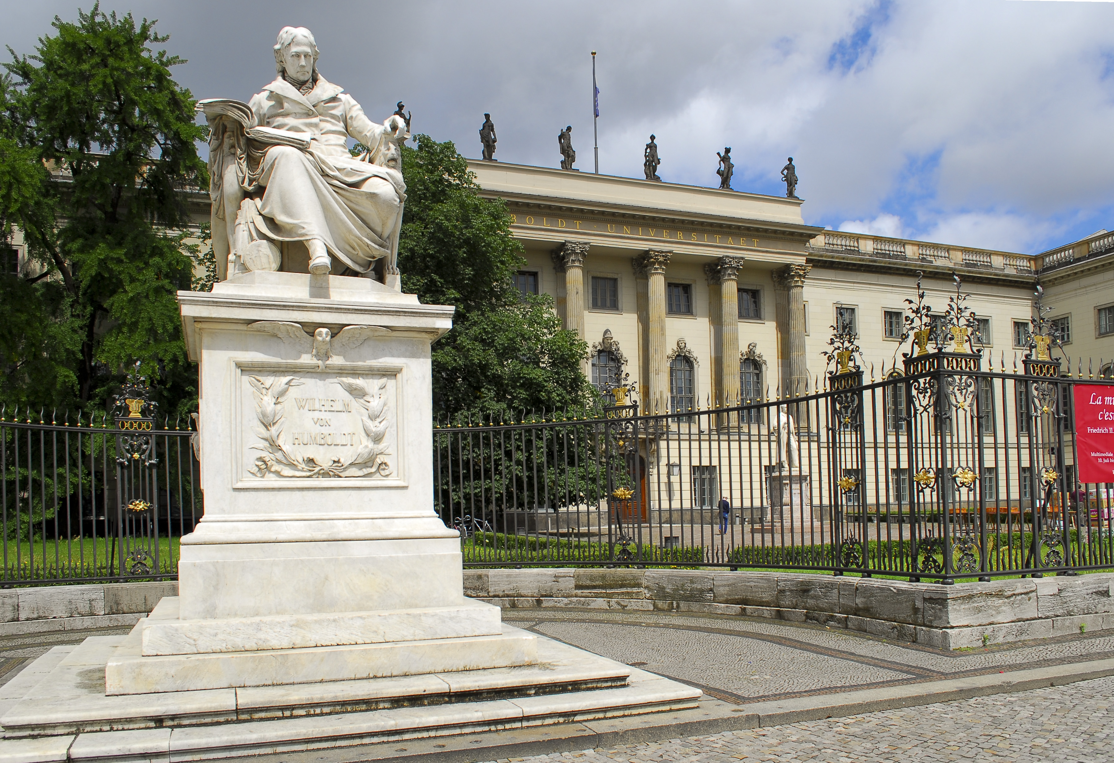 Humboldt University of Berlin (Wilhelm von Humboldt Statue)